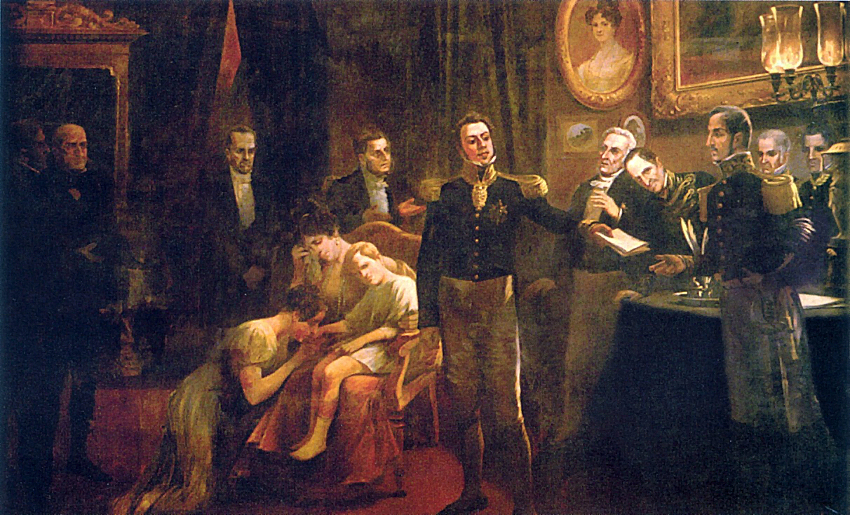 Pedro I delivers his abdication letter while a courtier kisses the hand of the now Pedro II, his son and heir, representing the end of a reign and the beginning of another. There is artistic license in this non-contemporary painting. The Emperor was actually dressed in plain clothes, not in court dress.[1] His son was sleeping in his room, not awaken during the ordeal[2]